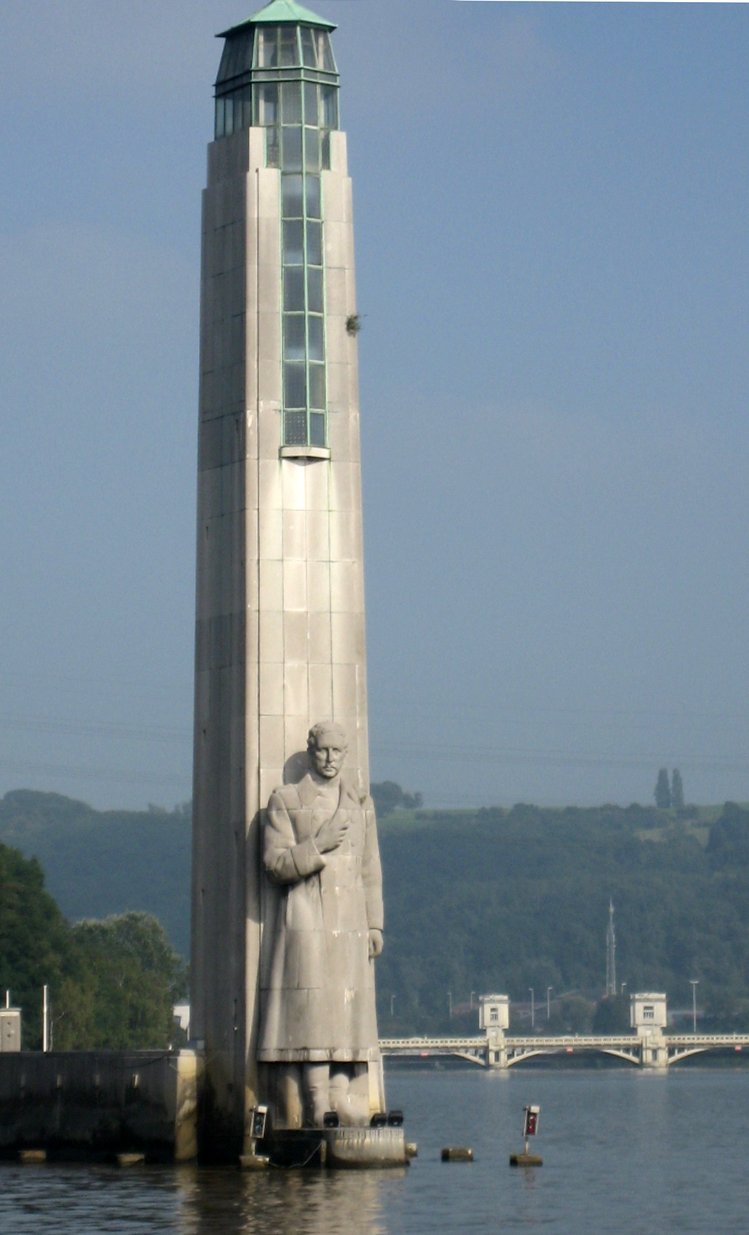 Statue of King Albert I at confluence of Albert Canal and Meuse river, Liège, Belgium.